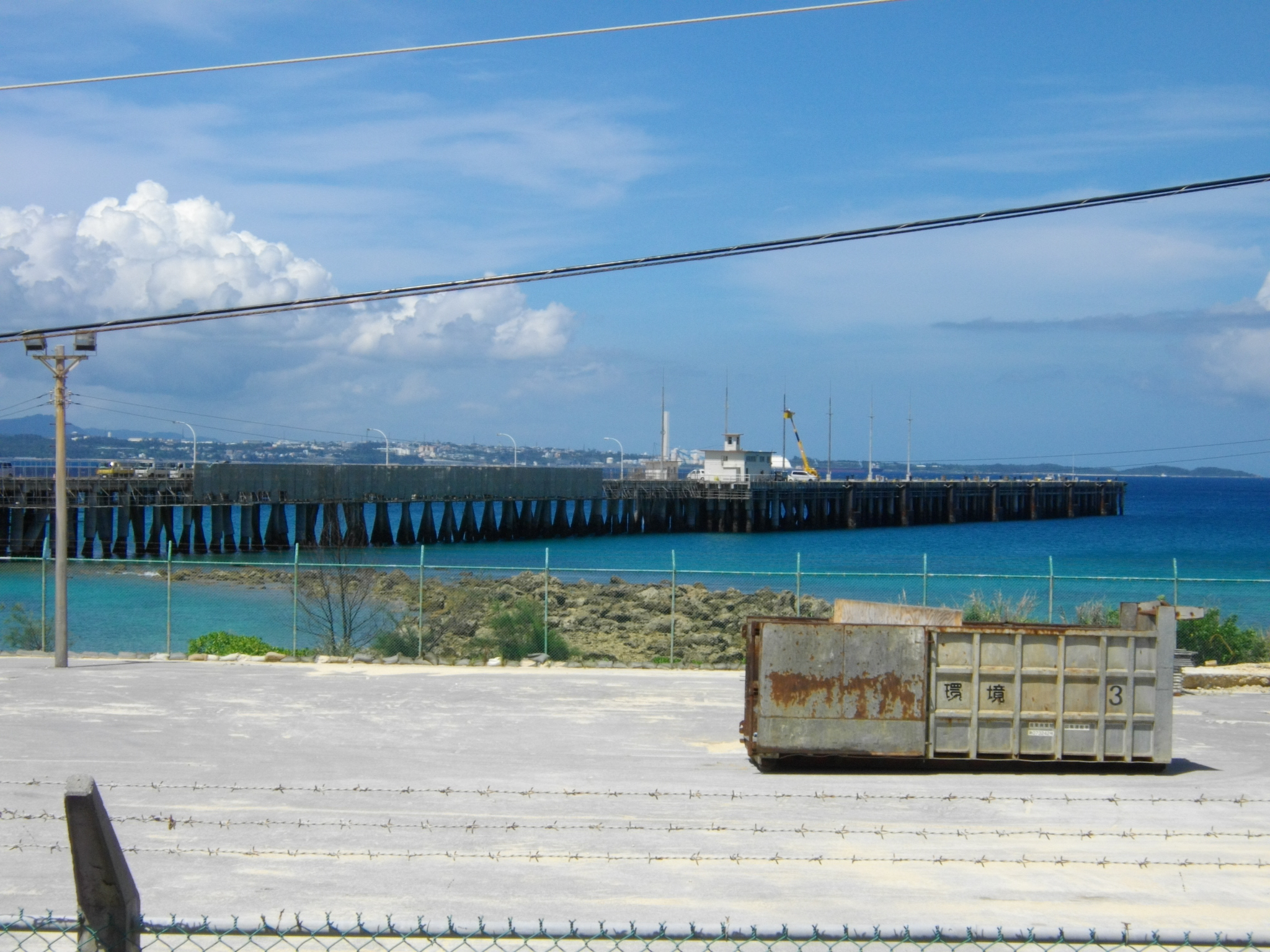 Tengan Pier